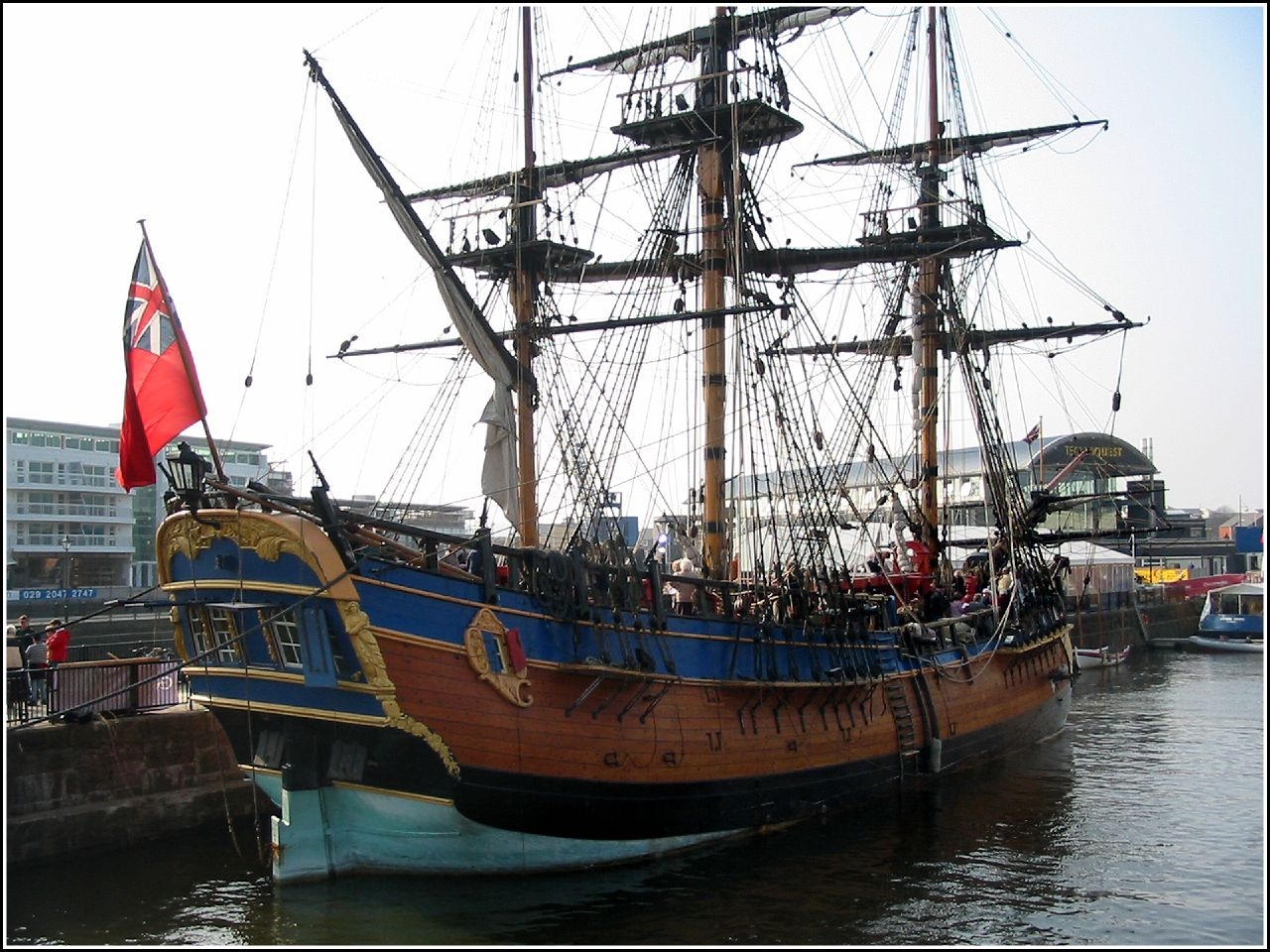 A look back at 2003 when this ship was in for a refit.